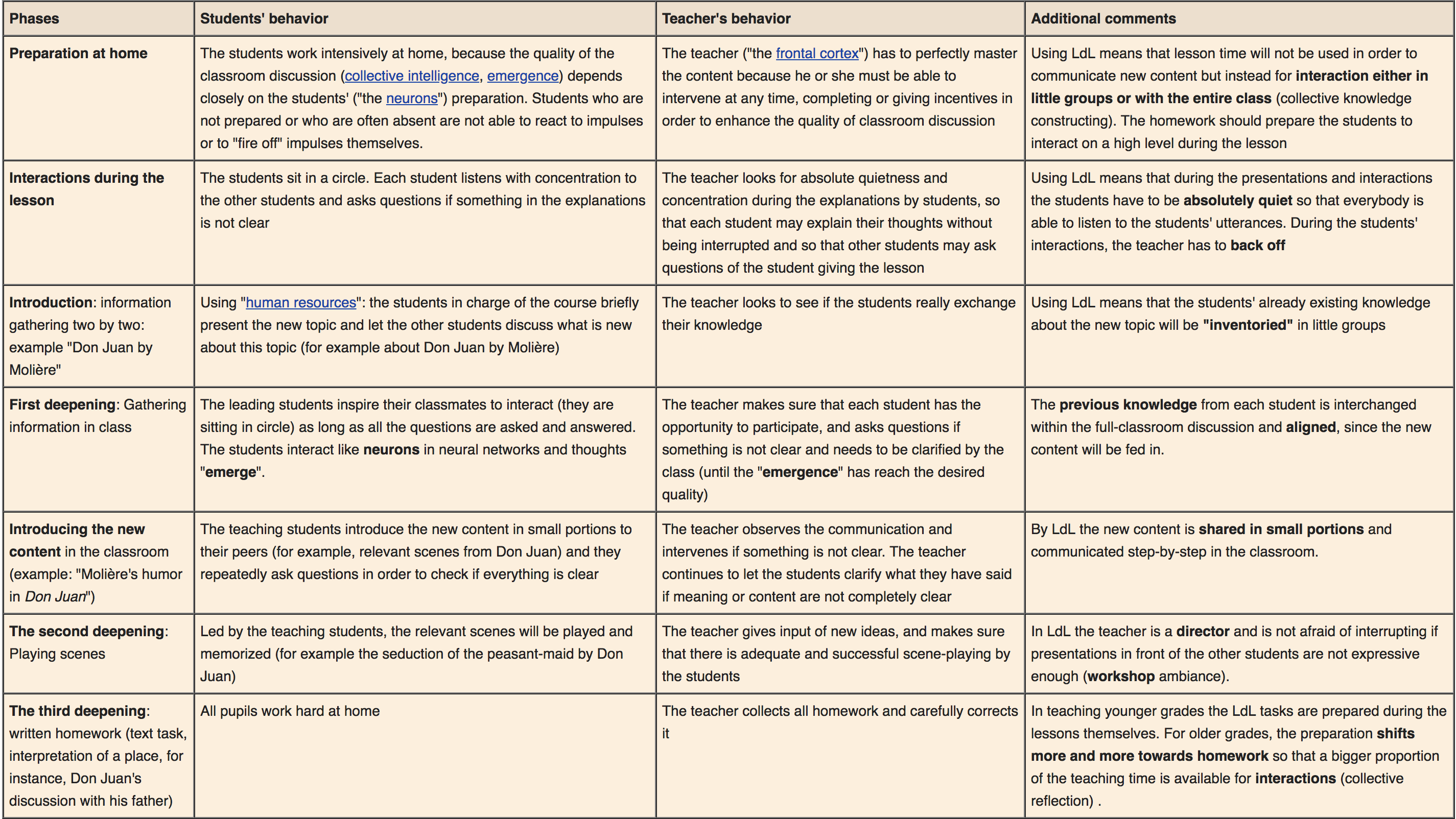 A table showing the various phases for students and teachers in Jean-Pol Martin's Learning by teaching (LdL) process